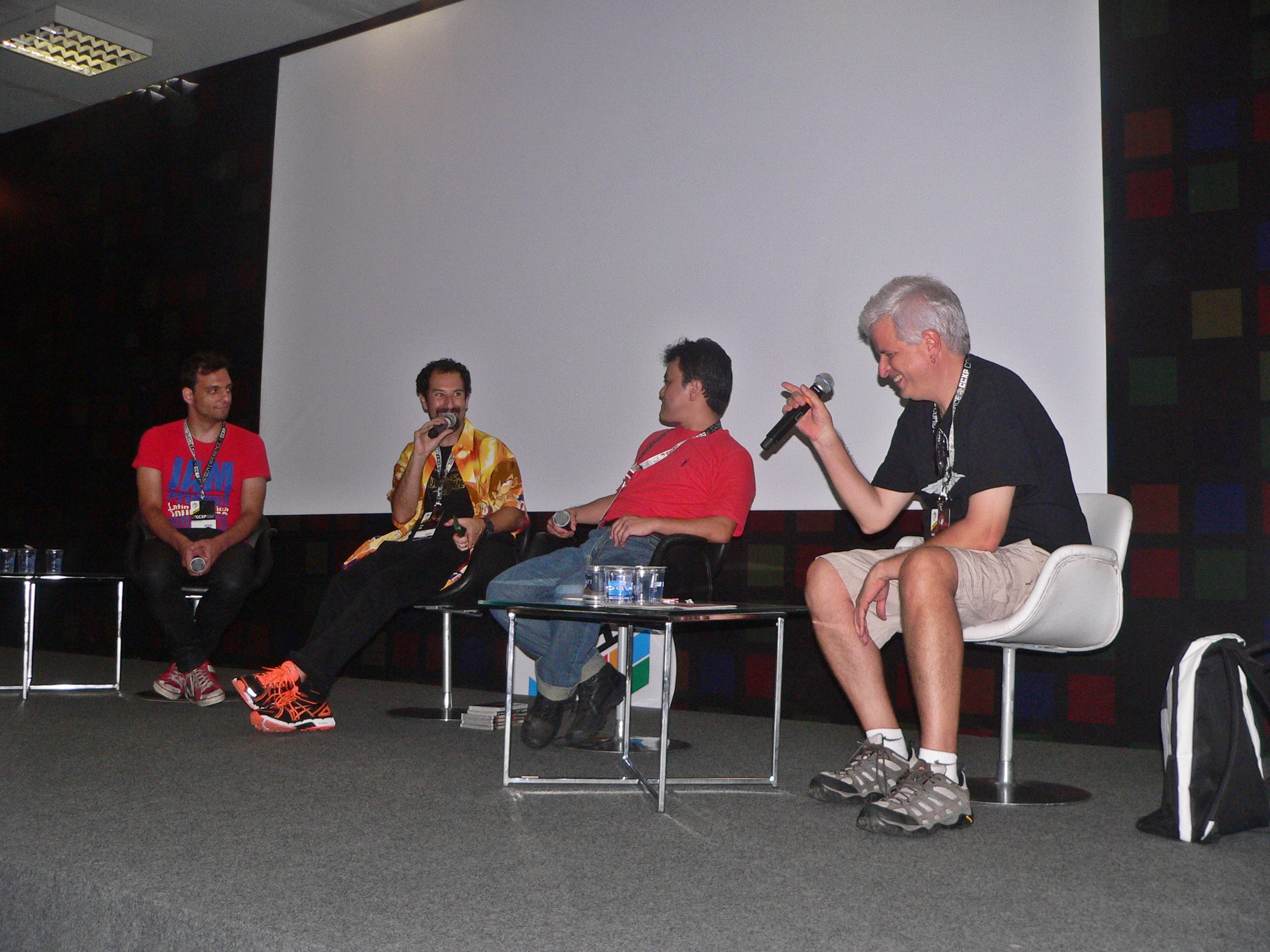 Part of the editorial team of the Brazilian magazine Heroi at the 2014 Comic Con Experience in São Paulo, Brasil. From left to right: Ricardo Cruz, Cassius Medauar, Alexandre Nagado and André Forastieri.